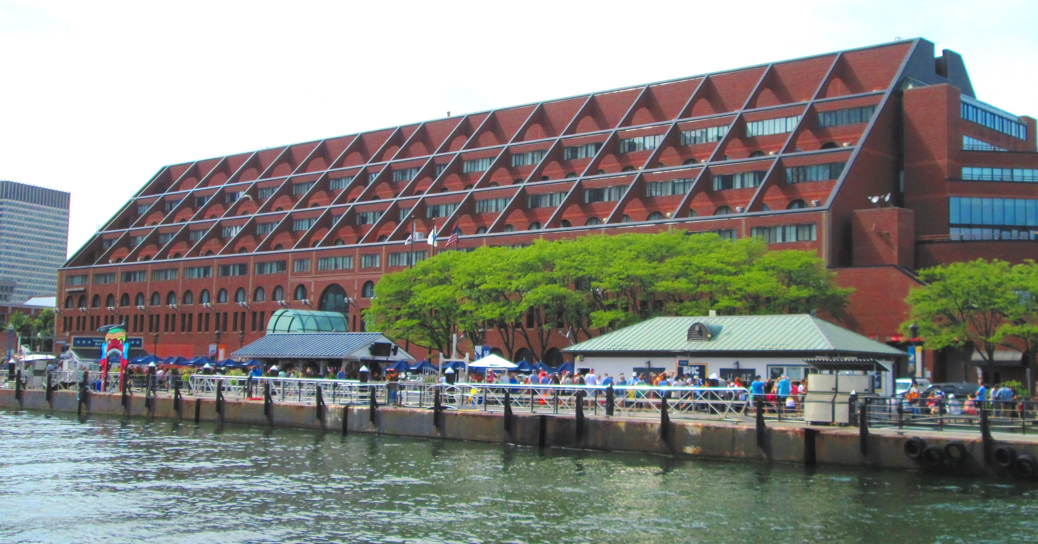 The Boston Marriott, Long Wharf hotel at 296 State Street was built in 1980-82 and was designed by Cosutta and Associates. It stands on about 50014 inch square prestressed concrete piles, which were precase. These were driven down an average of 90 feet to bedrock. The bolted steel frame of the hotel is designed to resist earthquakes. (Source: AIA Guide to Boston (2nd ed.))